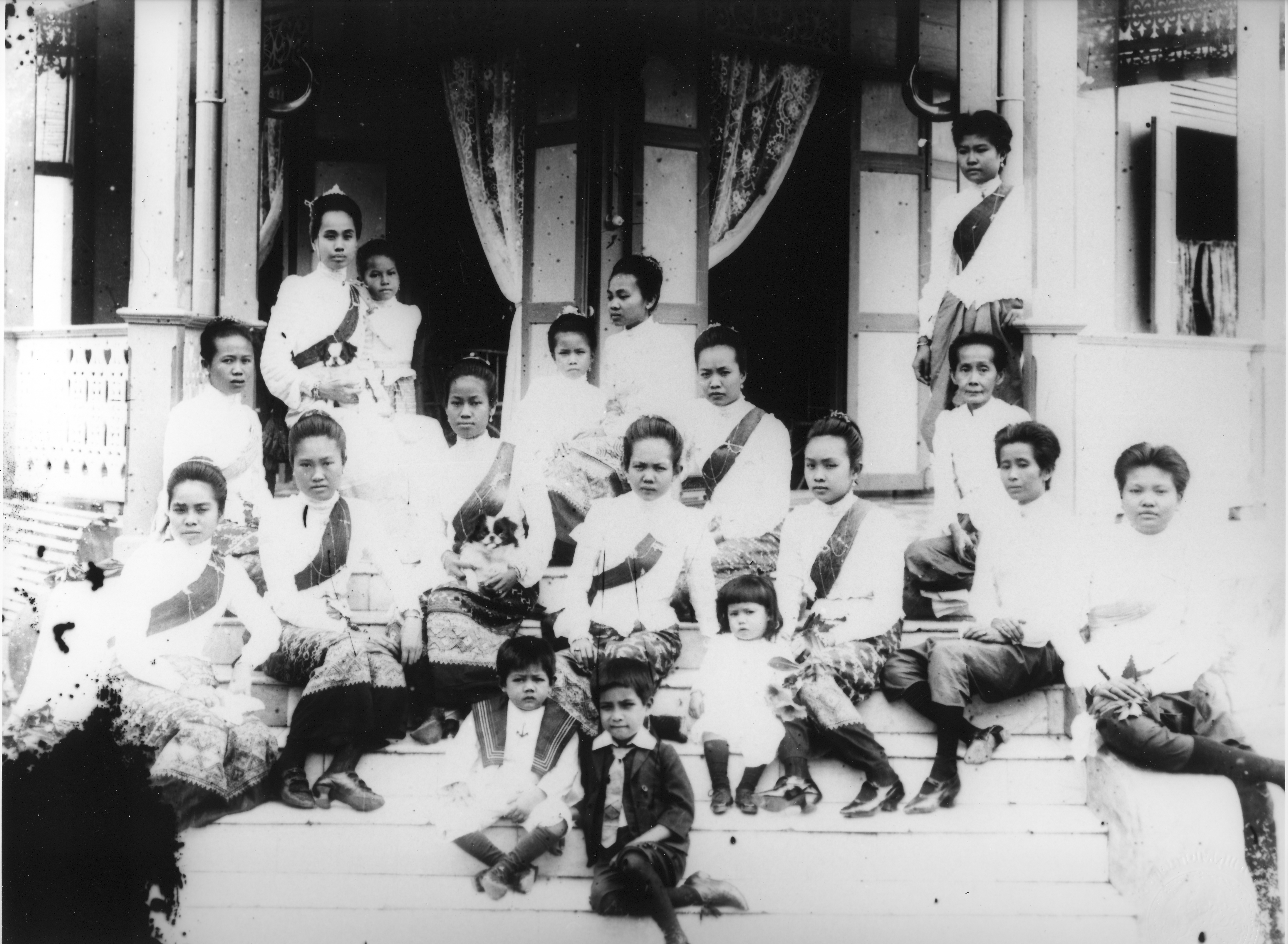 ผู้ถ่ายภาพ ไม่ทราบ